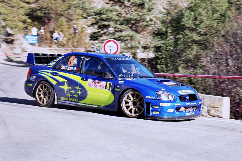 World Rally Championship 2005 Rallye Automobile Monte Carlo: Subaru Impreza